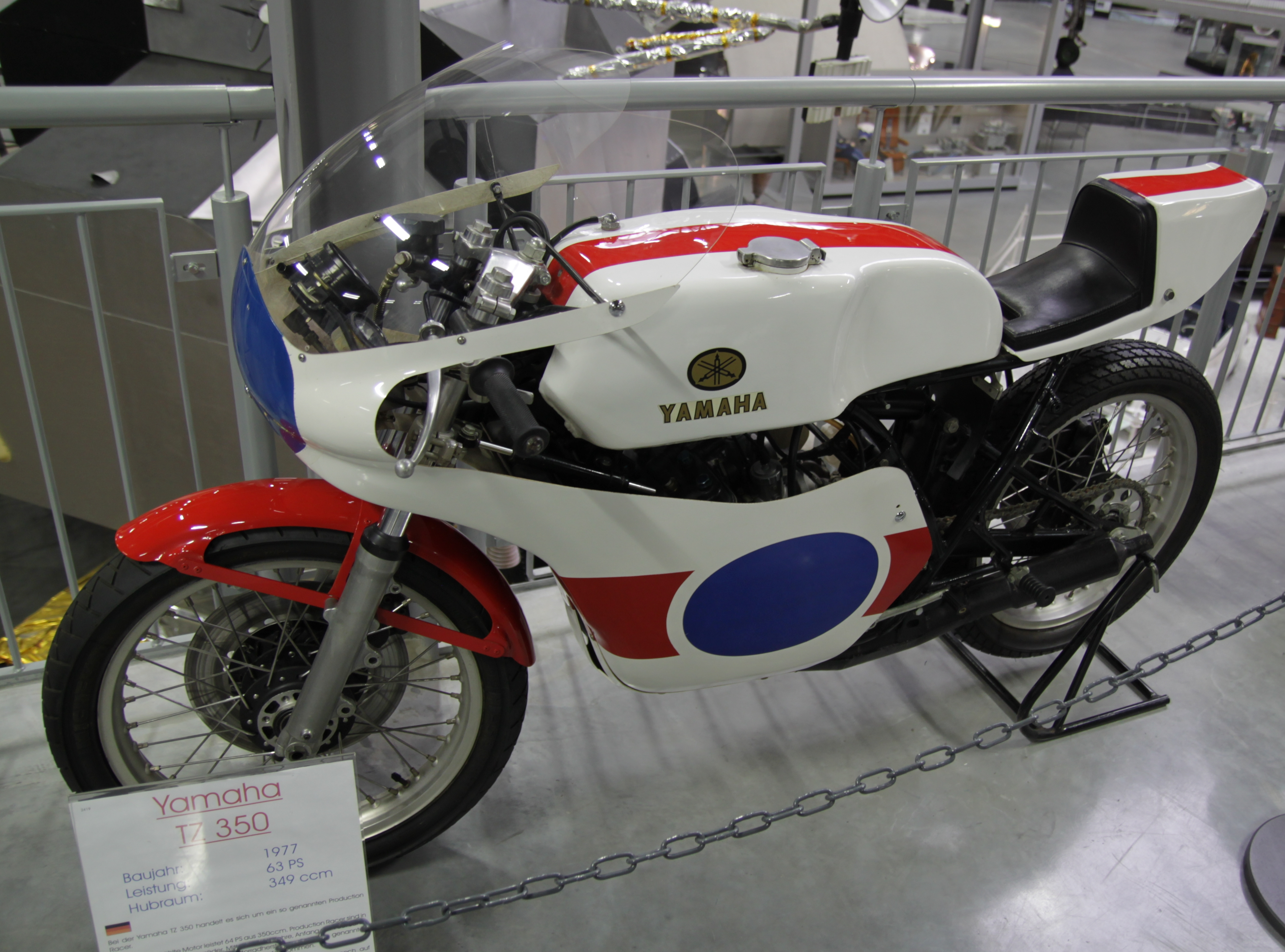 Motorcycle Yamaha TZ 350, 1977, 349 ccm, 63 HP